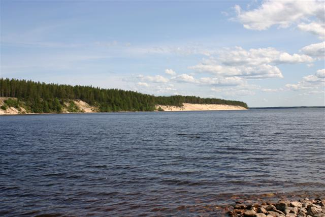 Ärjä island in Oulujarvi in Kajaani, Finland